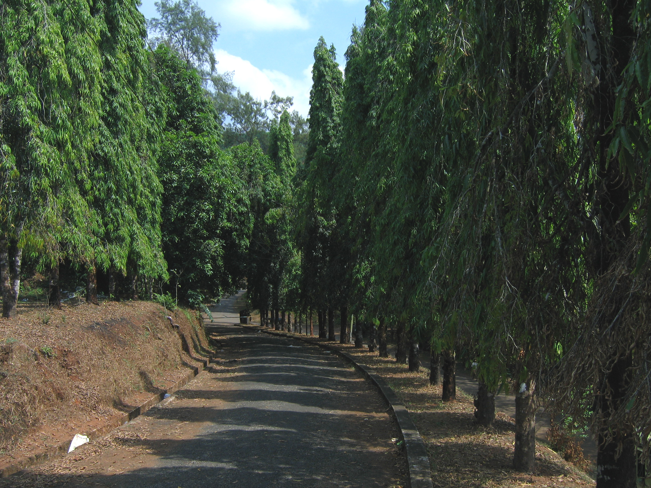 Polyalthia longifolia - അരണമരം